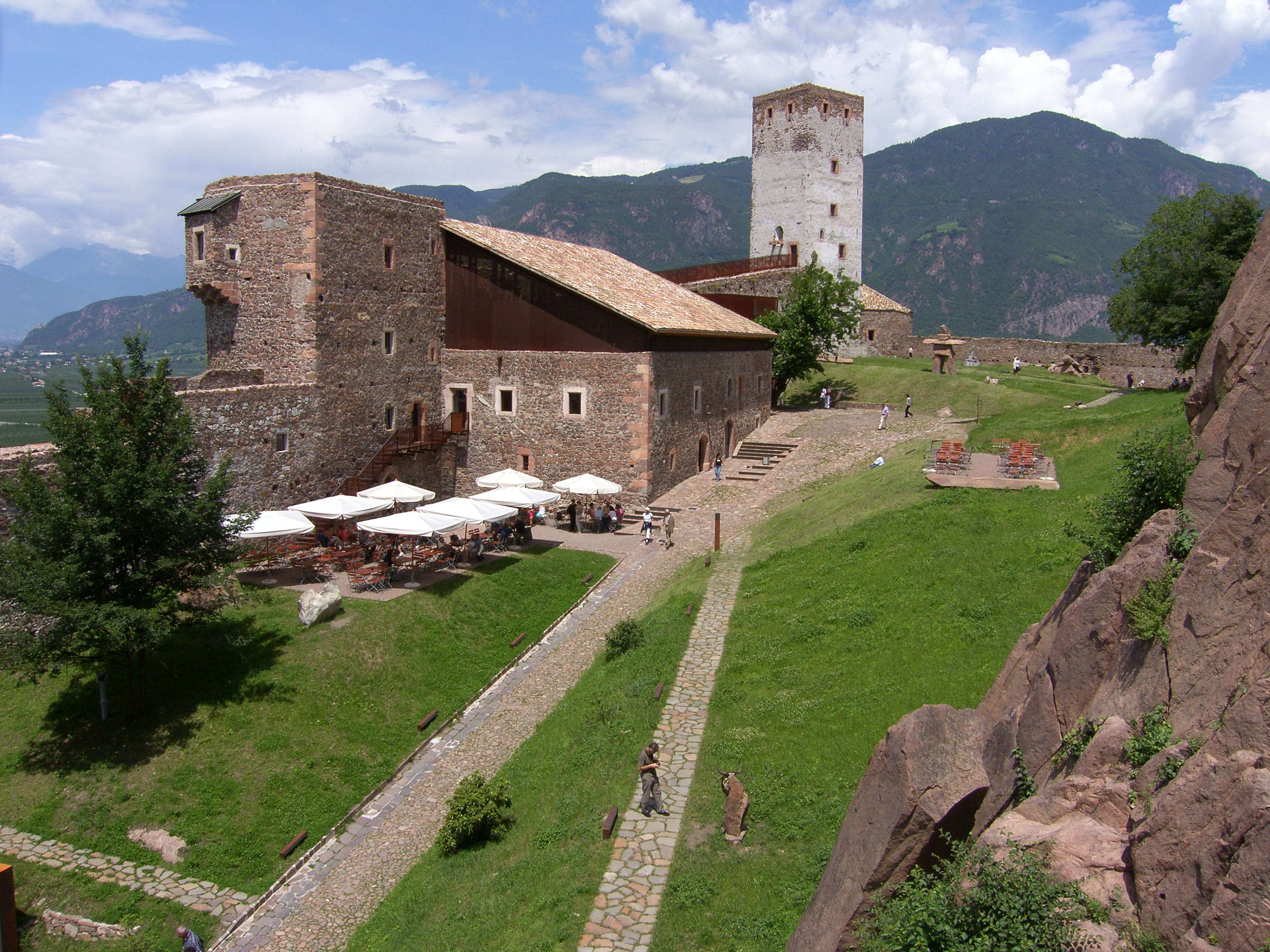 Castle Sigmundskron (Firmian), Bozen, South Tyrol, view from above the entrance